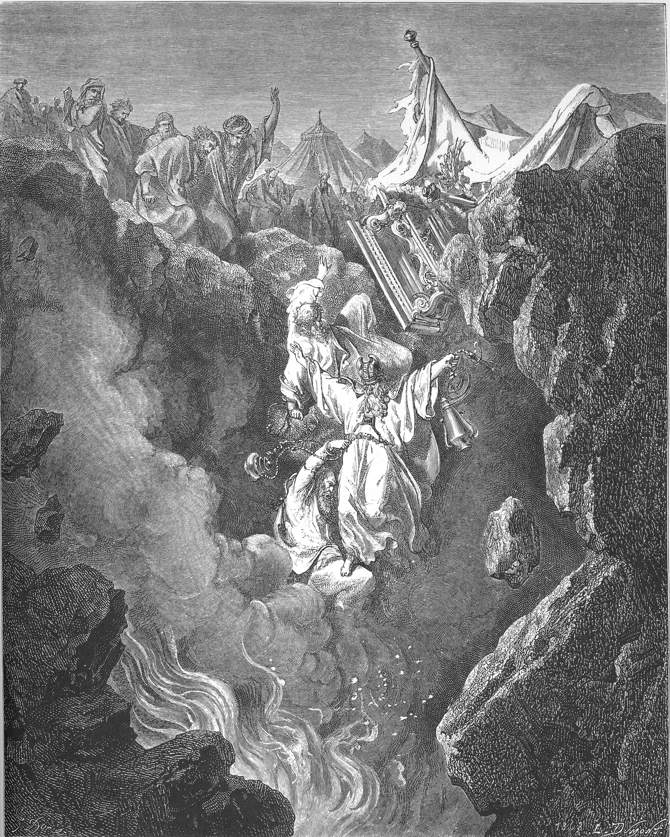 The Death of Korah, Dathan, and Abiram (Num. 16:20-35)